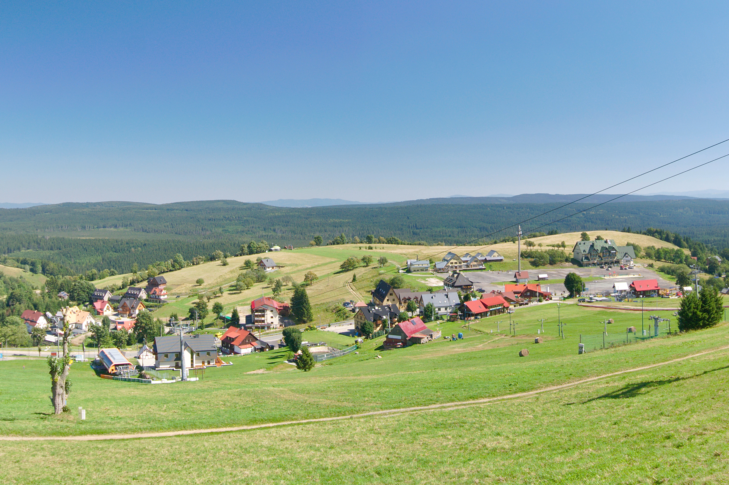 Crop of panoramics in Zieleniec, Lower Silesian Voivodeship